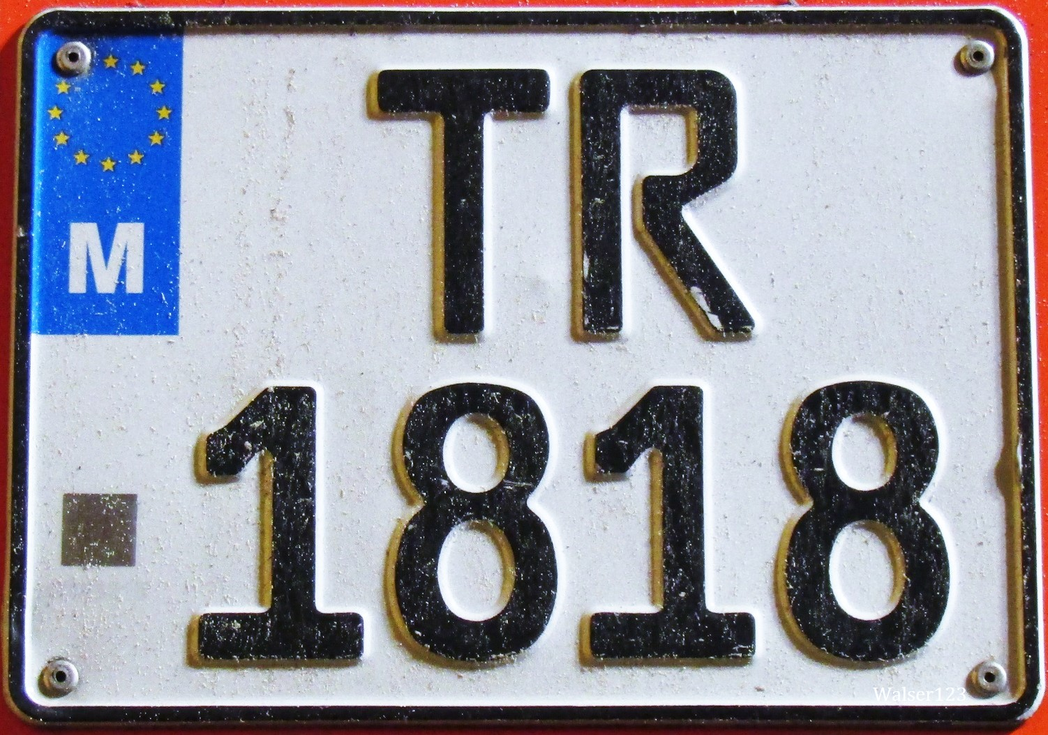 Malta trailer license plate